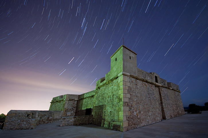 Castle de Sant Jordi d'Alfama